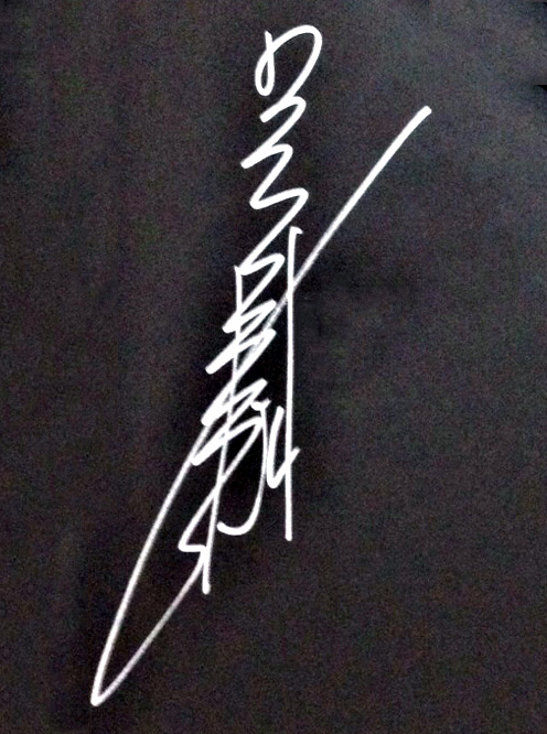 This is Ng Chi Hung's signature.